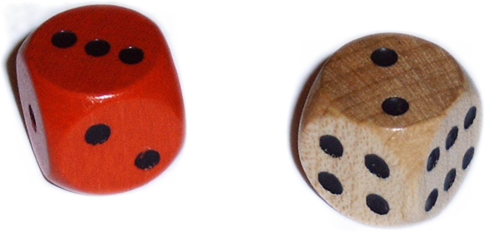 Source: Alexander Dreyer Two dice, all combination of eyes. Photographed by myself.